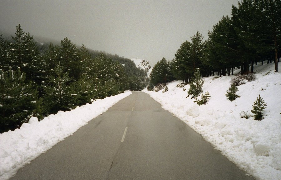 Puerto de la Ragua mountain pass in the Sierra Nevada, Granada (2000M)